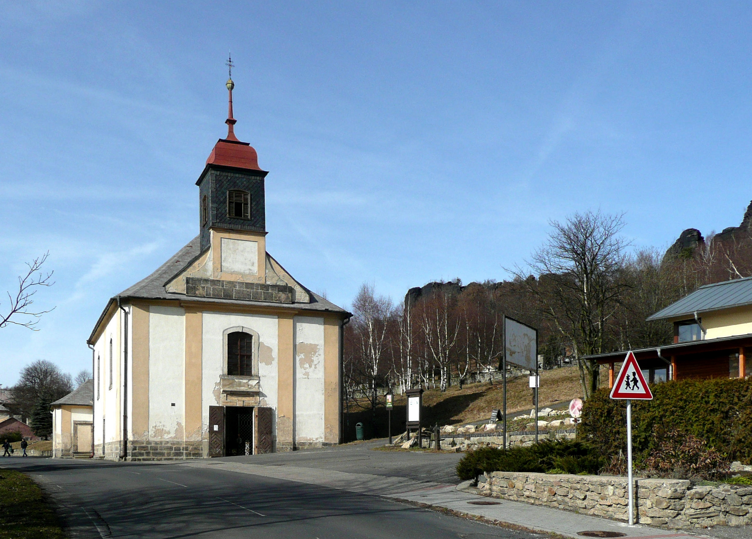 This image shows the church in Tisá in the Ústí nad Labem Region, Czech Republic. The church was built 1789.